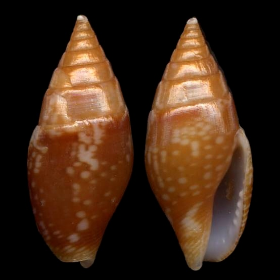 Pyrene marmorata (Gray, 1839) a sea snail from the family Columbellidae; Philippines